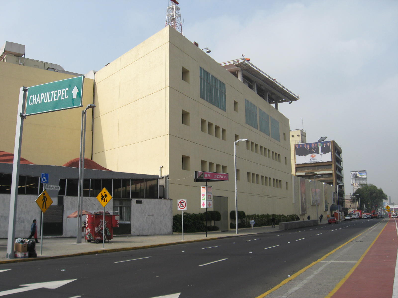 Televisa studios on Chapultepec Ave in Colonia Doctores in Mexico City